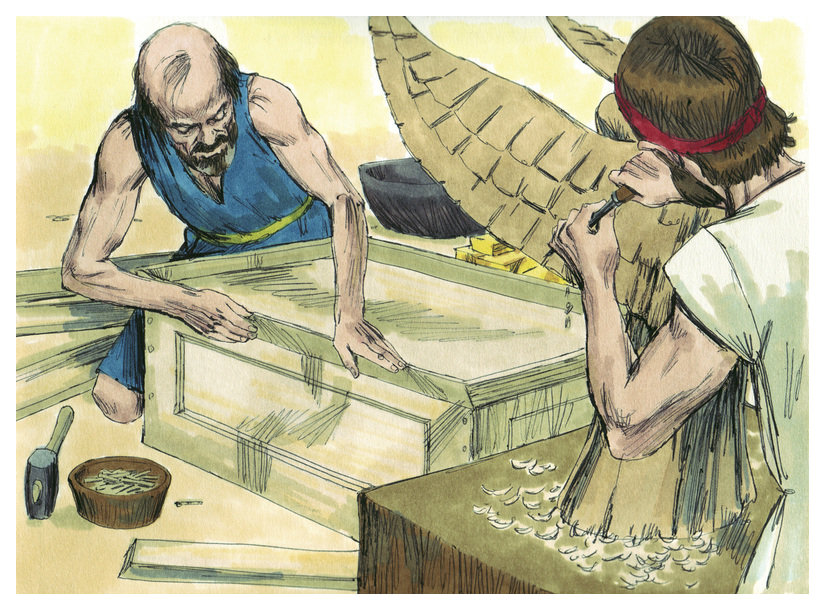 Biblical illustration of Book of Exodus Chapter 26